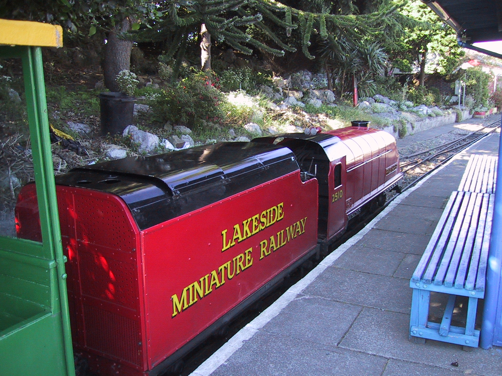 Barlow locomotive Prince Charles, at Lakeside Miniature railway Simon Moore, C:\Documents and Settings\Simon Moore\My Documents\My Pictures